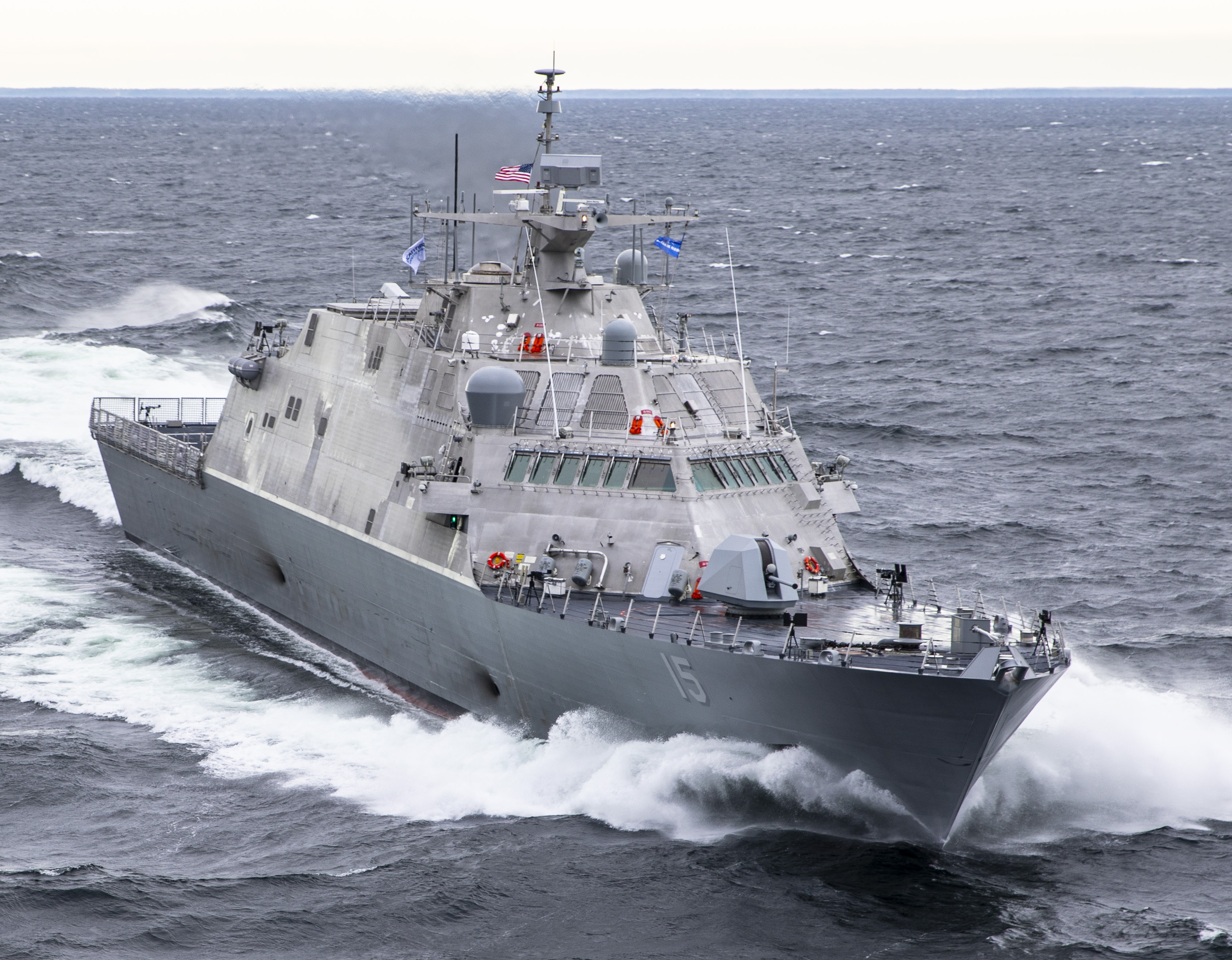 181206-N-N0101-028 MARINETTE, Wis. (Dec. 6, 2018) The future littoral combat ship USS Billings (LCS 15) conducts acceptance trials on Lake Michigan, Dec. 6, 2018. Billings is the 17th littoral combat ship, an adaptable platform designed to support focused mine countermeasures, anti-submarine warfare and surface warfare missions. (U.S. Navy photo courtesy of Marinette Marine/Released)